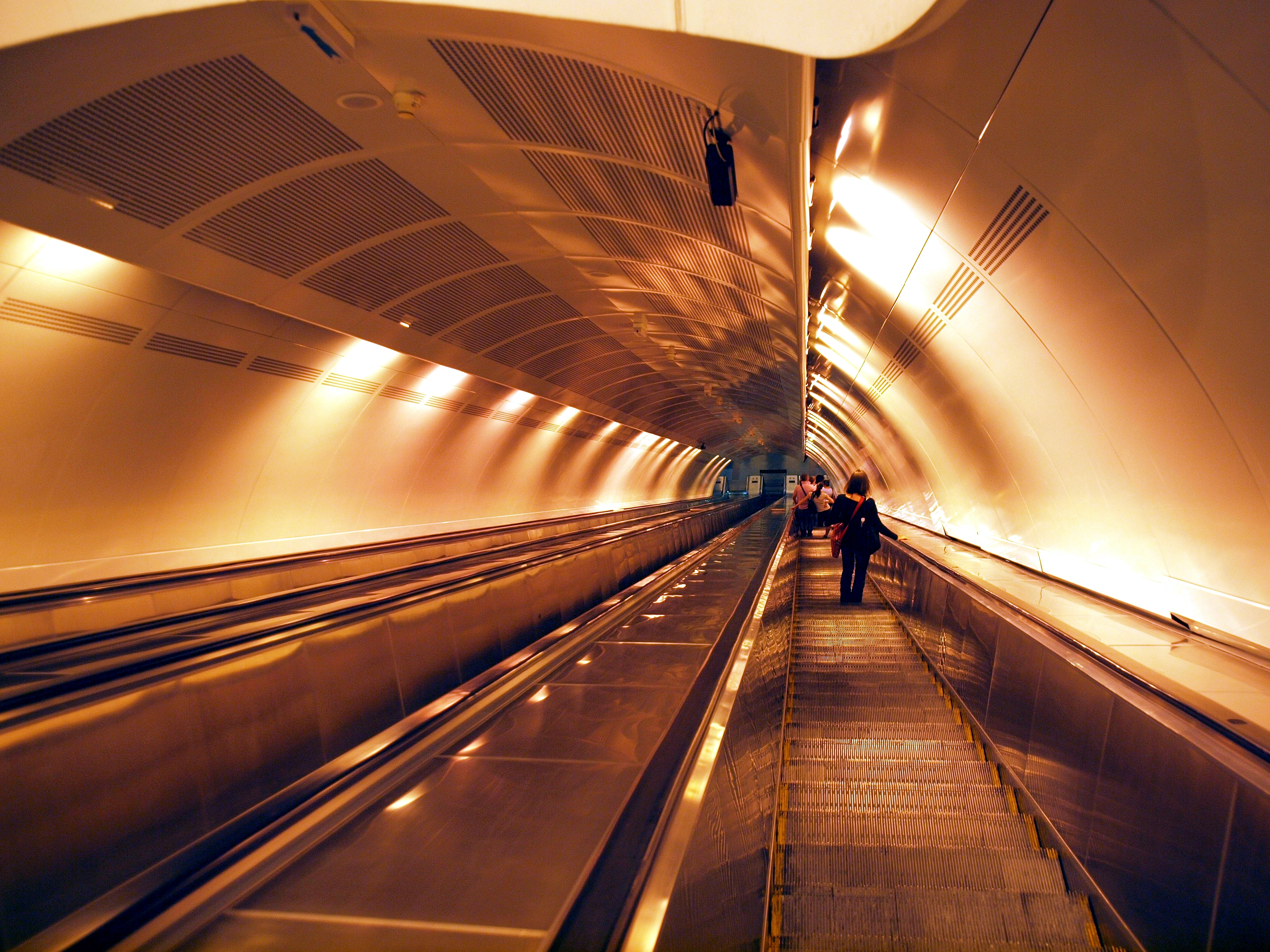 Escalator Vukov spomenik, Belgrade